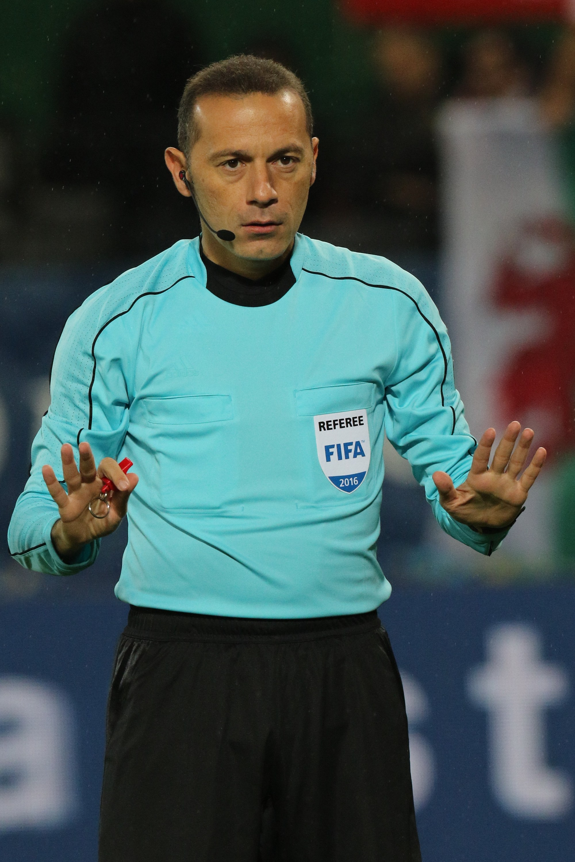 2018 FIFA World Cup qualification – UEFA Group D) – Austria (red shirts) vs. Wales (white shirts) 2-2 (1-2) – 2016-10-06 in Vienna, Ernst-Happel-Stadion – The photo shows referee Cüneyt Çakir (Turkey).